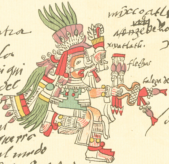 The Aztec god Mixcoatl.